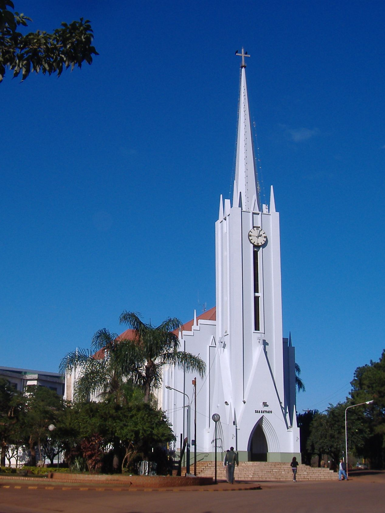 Church of St. Anthony, in the center of the city of Oberá, Misiones Province, Argentina